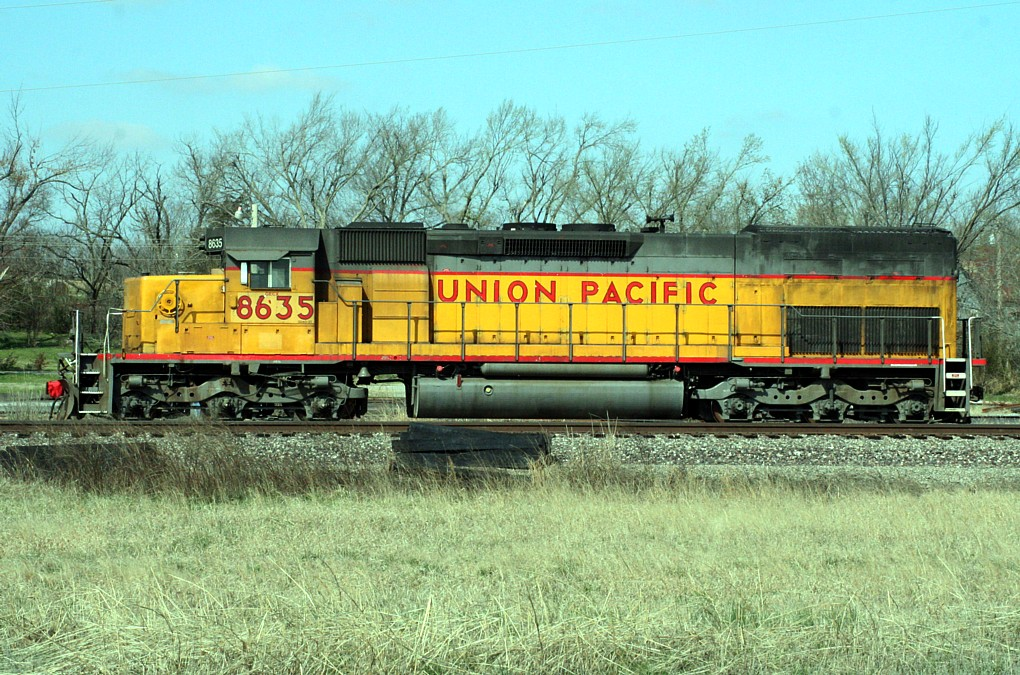 Union Pacific Railroad 8635, EMD SD40T-2 [1]